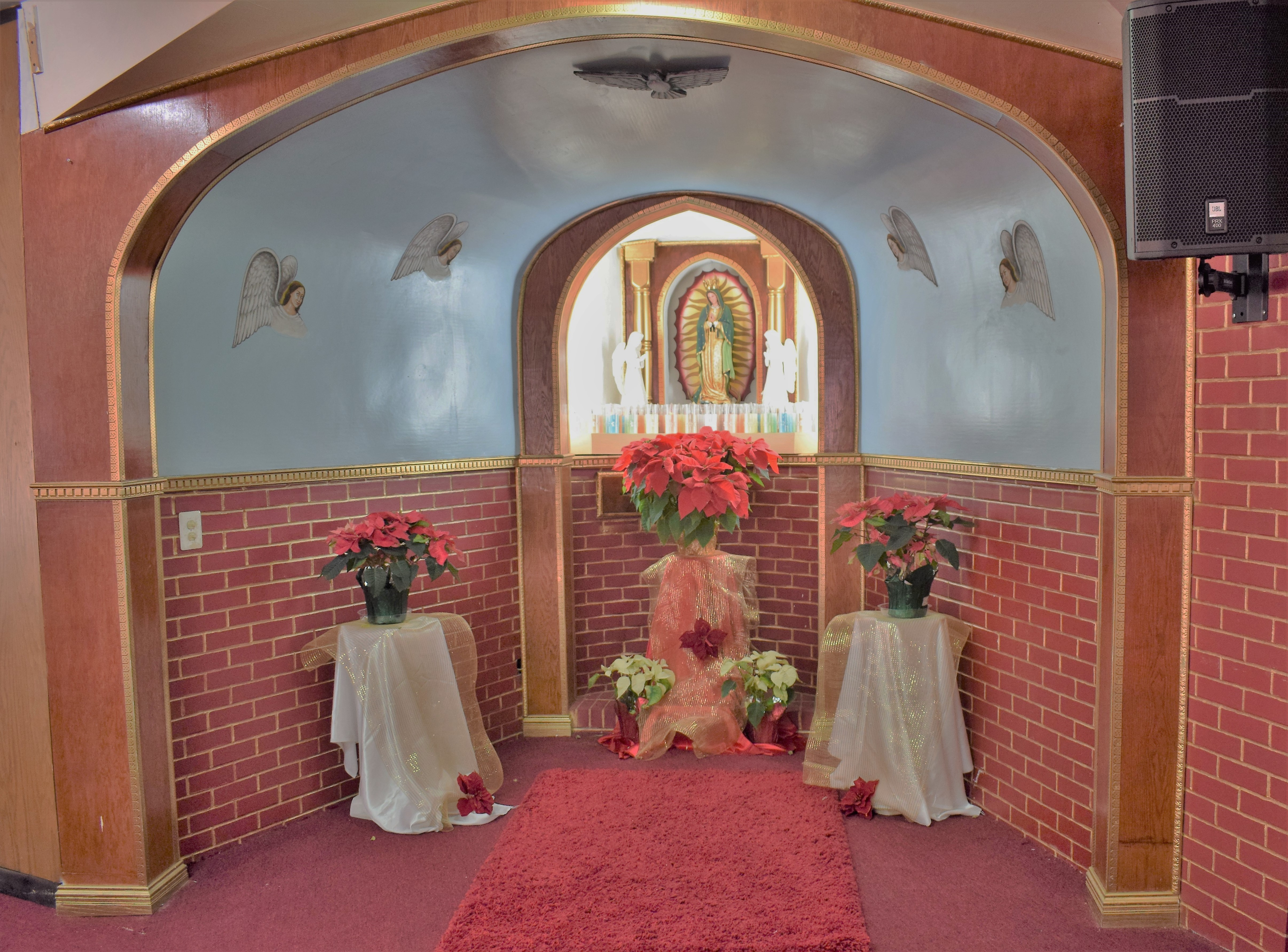 Installed in 2006 inside the church.